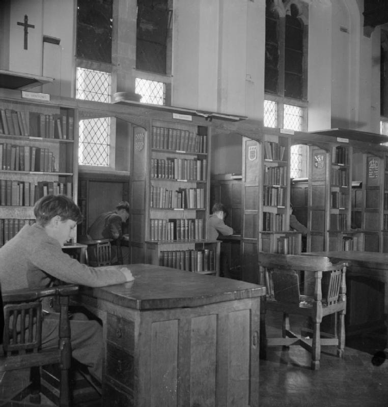 Catholic Public School- Everyday Life at Ampleforth College, York, England, UK, 1943 Boys in the final year at Ampleforth College engage in some private study in the extensive and ornate library. Books are arranged by subject and the carved wooden shelves form bays in which the boys can sit and read. Several other desks are provided in the centre of the library. A crucifix on the wall of the library reminds scholars of the Roman Catholic emphasis of the school.